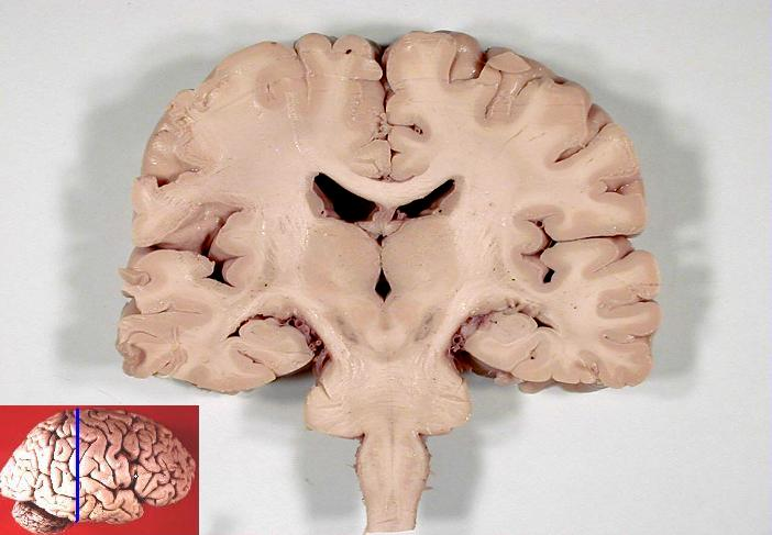 Human brain frontal (coronal) section